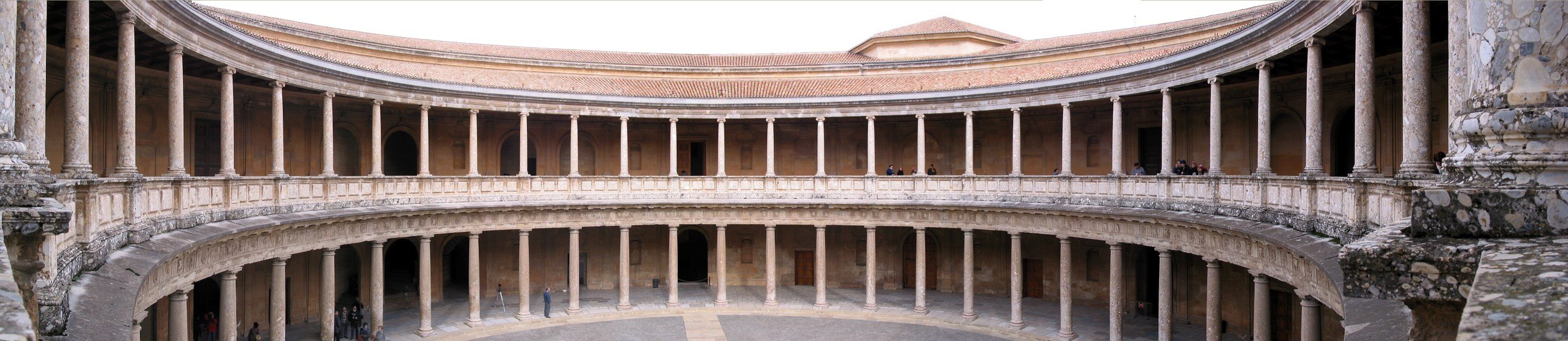 180° panorama of Alhambra court yard.